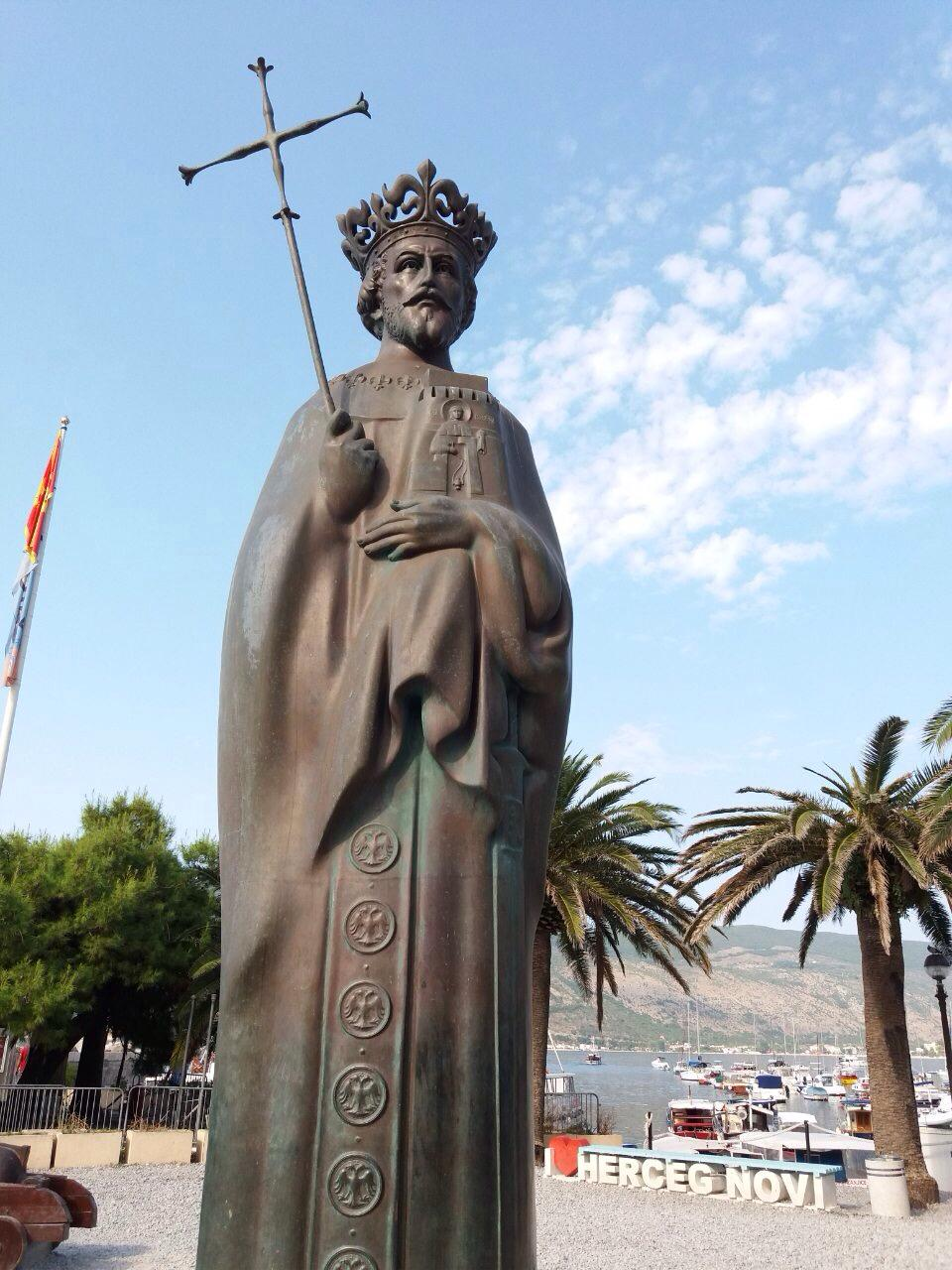 In early 1382, Tvrtko constructed a new fortress in the Bay of Kotor and decided that it should form the basis of a new salt trading center. Initially named after Saint Stephen, the city came to be known as Herceg Novi (meaning "new").